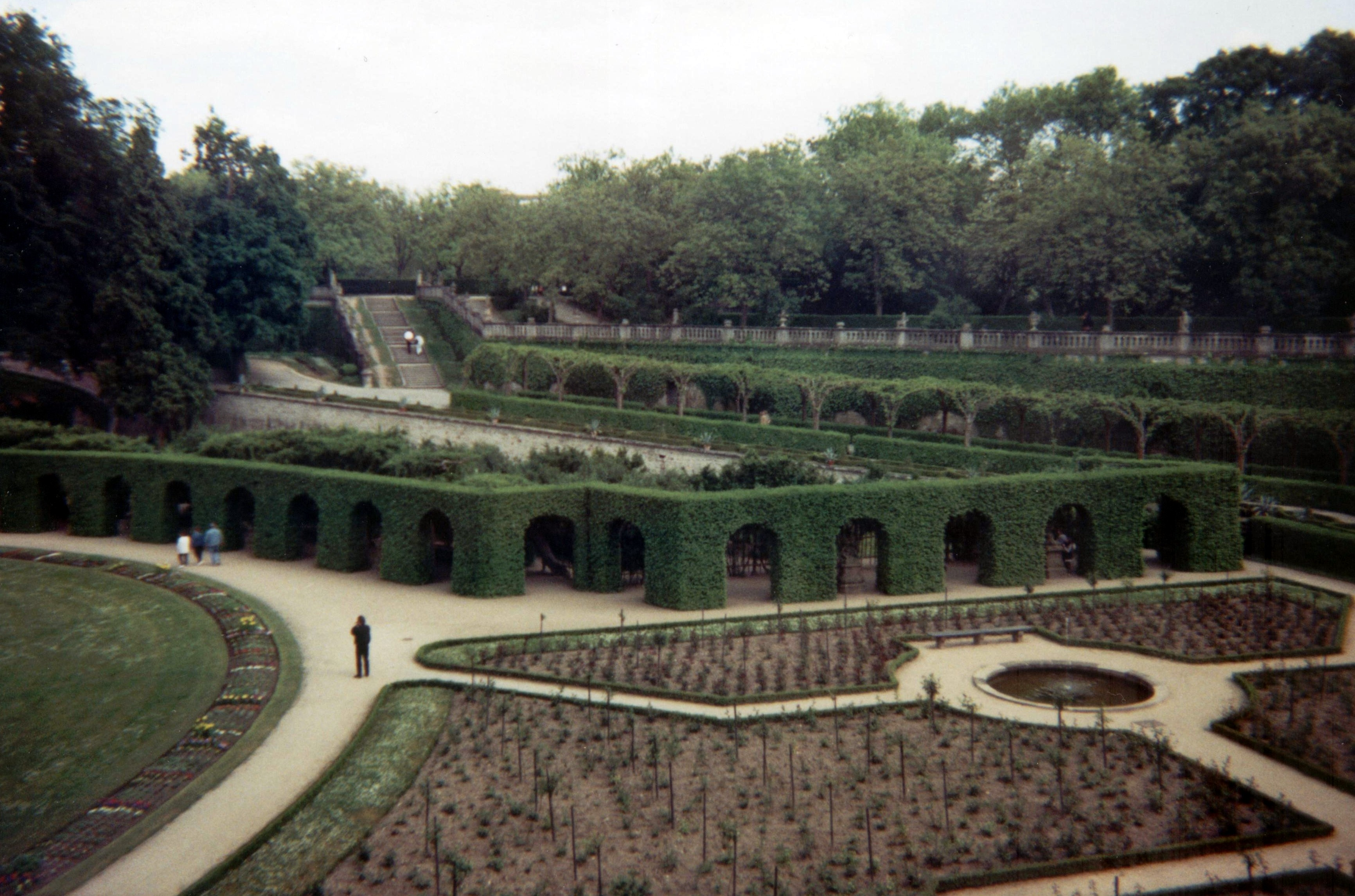 Rose garden and topiary arched hedge, Würzburg Residence, Germany.